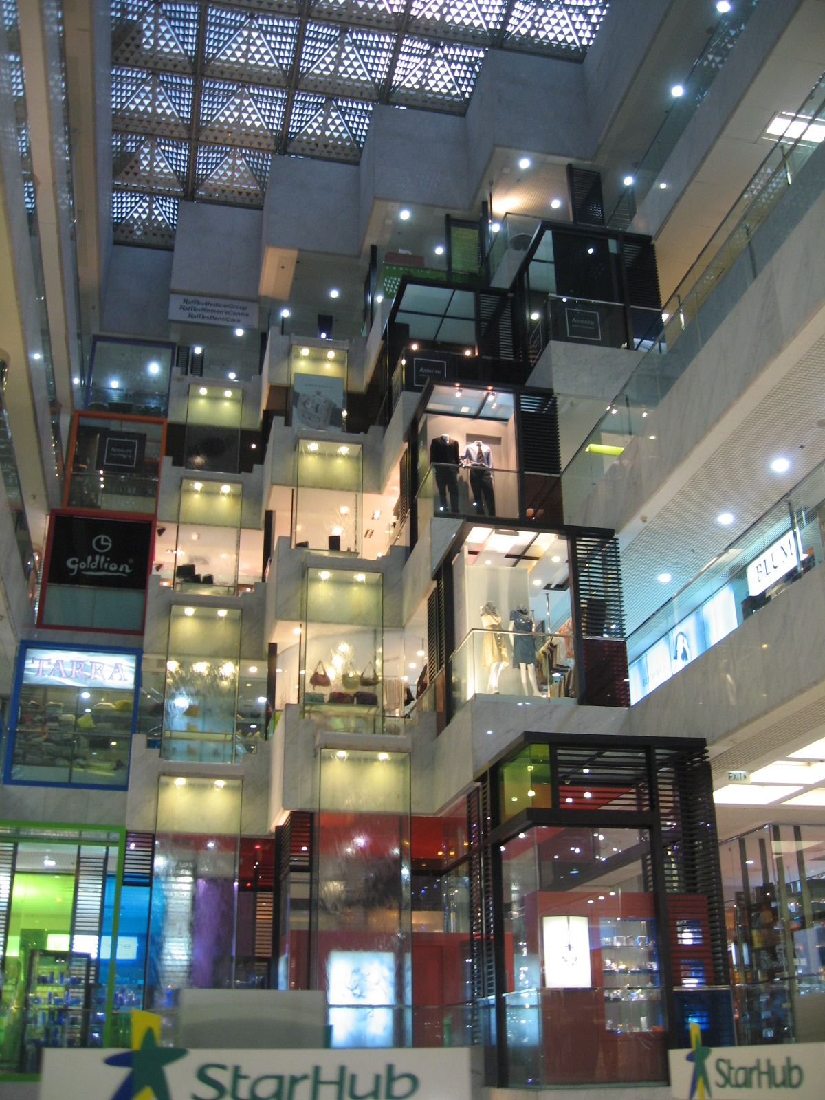 OUB Centre (interior).